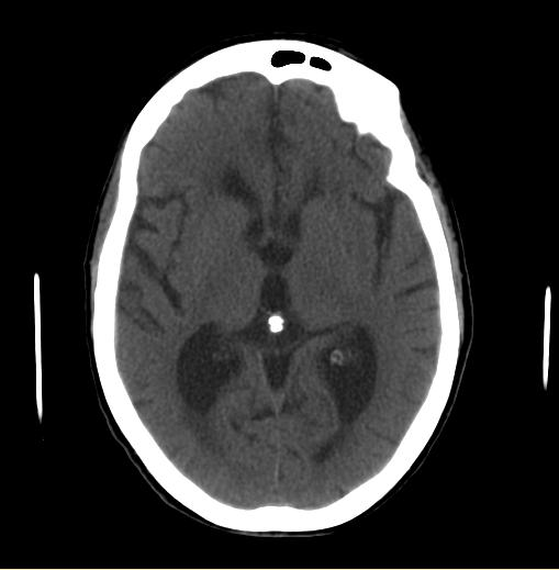 This image is part of a series which can be scrolled interactively with the mousewheel or mouse dragging. This is done by using Template:Imagestack. The series is found in the category Computed tomography images of normal pressure hydrocephalus. Normal pressure hydrocephalus, CT scan